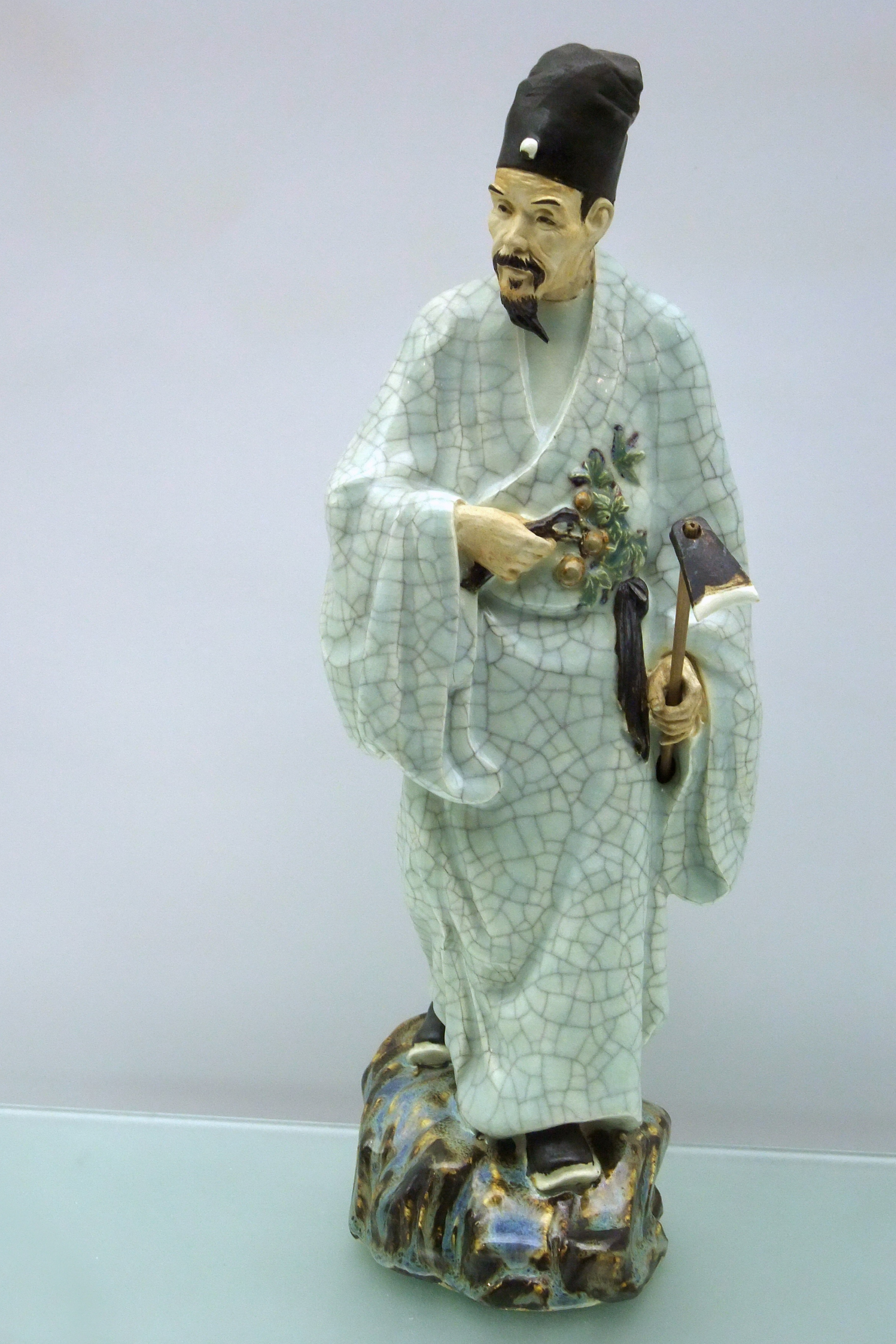 Li Shizhen figurine on display at the Hong Kong Museum of Art.